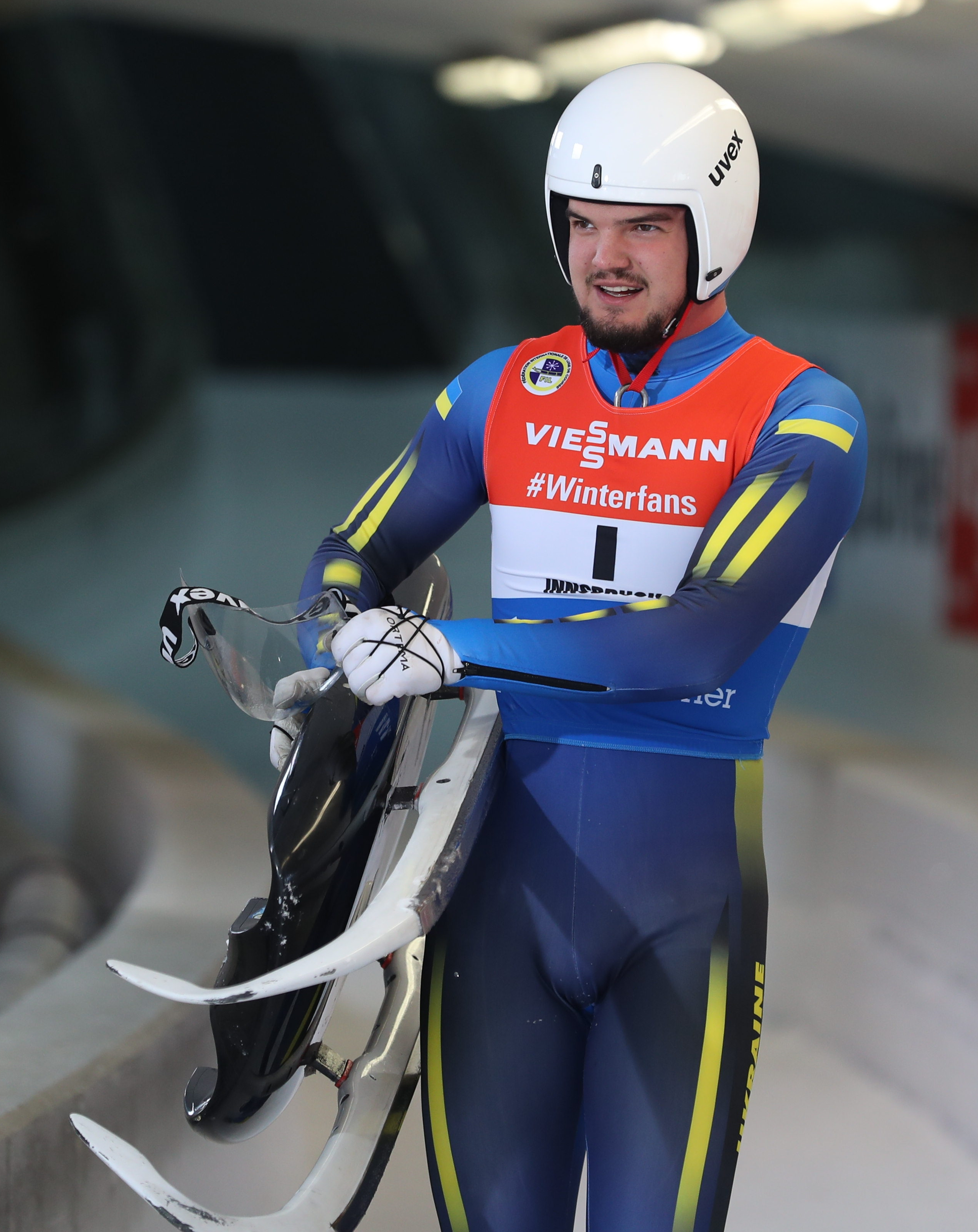 Men's World Cup race at the 2018/19 Luge World Cup in Innsbruck-Igls